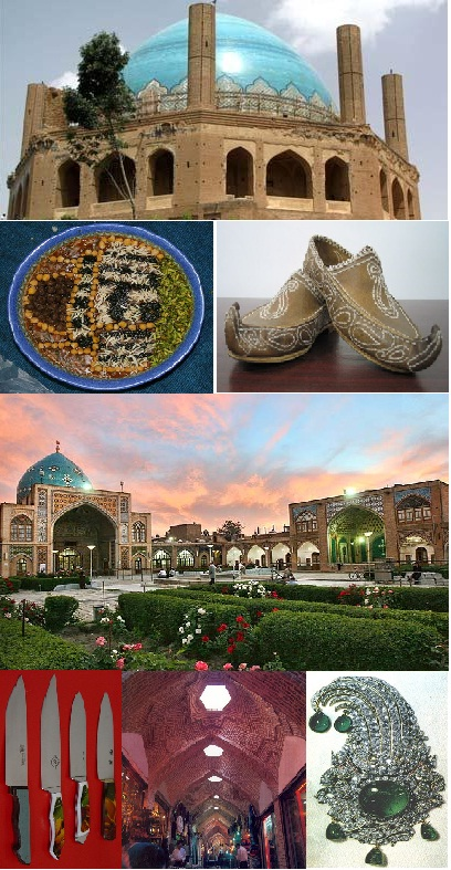 Zanjan Province